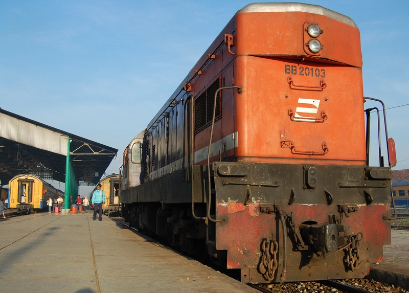 Diesel locomotive BB 201 03 from Indonesia